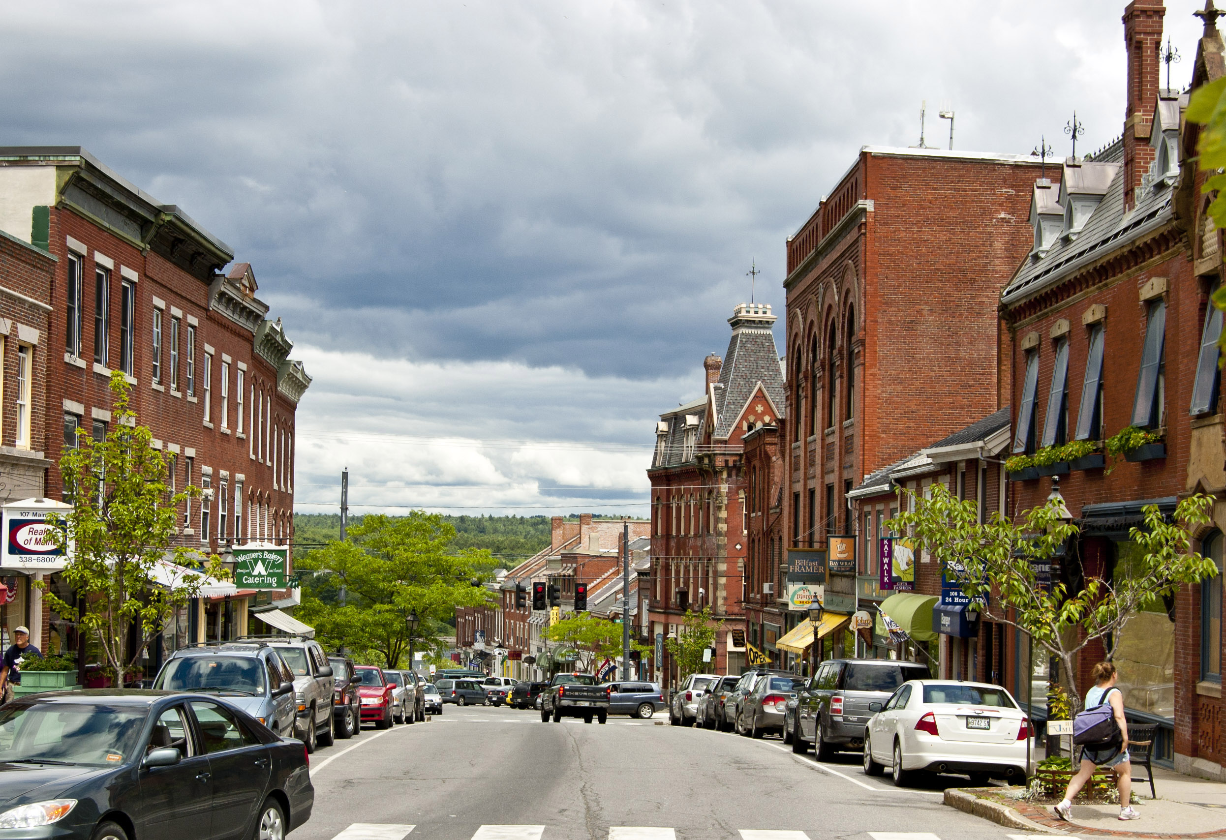 Belfast. Main St., from Post Office Square